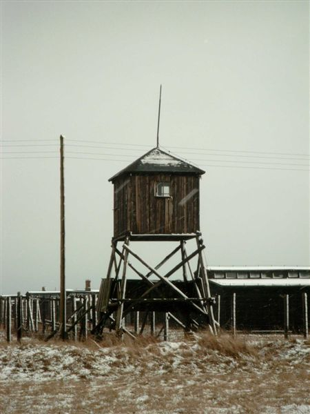 Nazi concentration and extermination camp Majdanek, then General government for the occupied Polish areas: Watchtower.